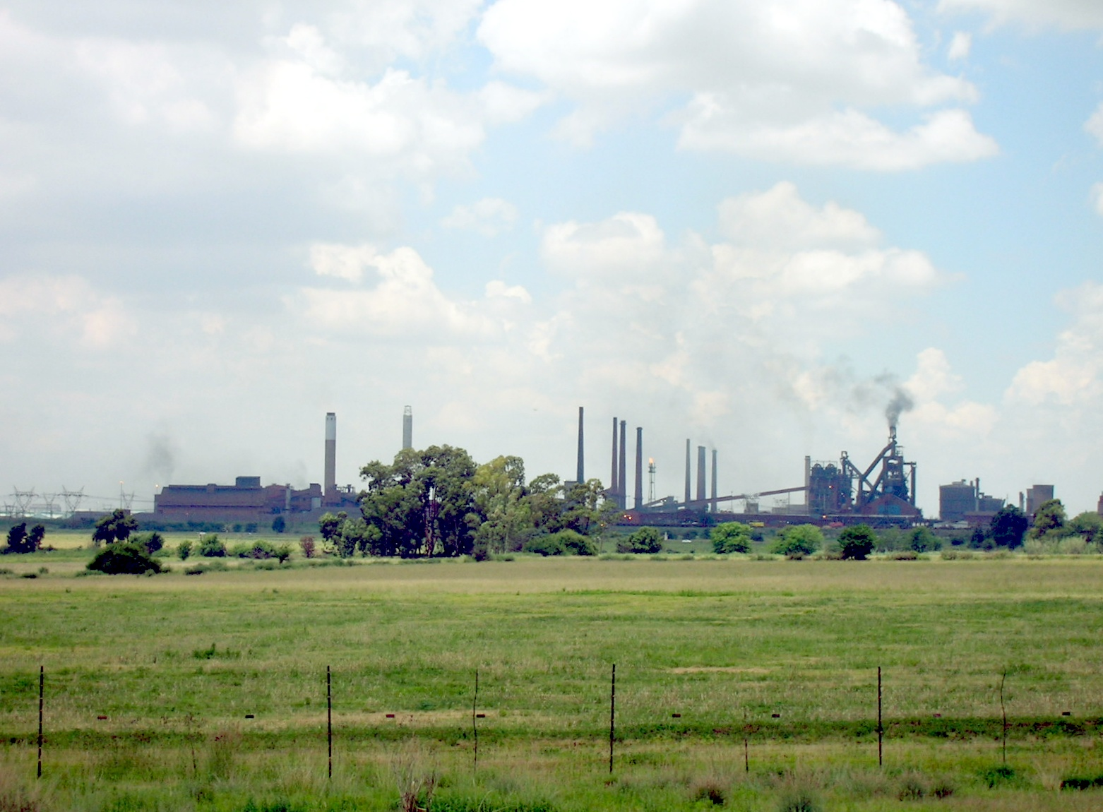 The Mittal Steel mill at Vanderbijlpark, South Africa.